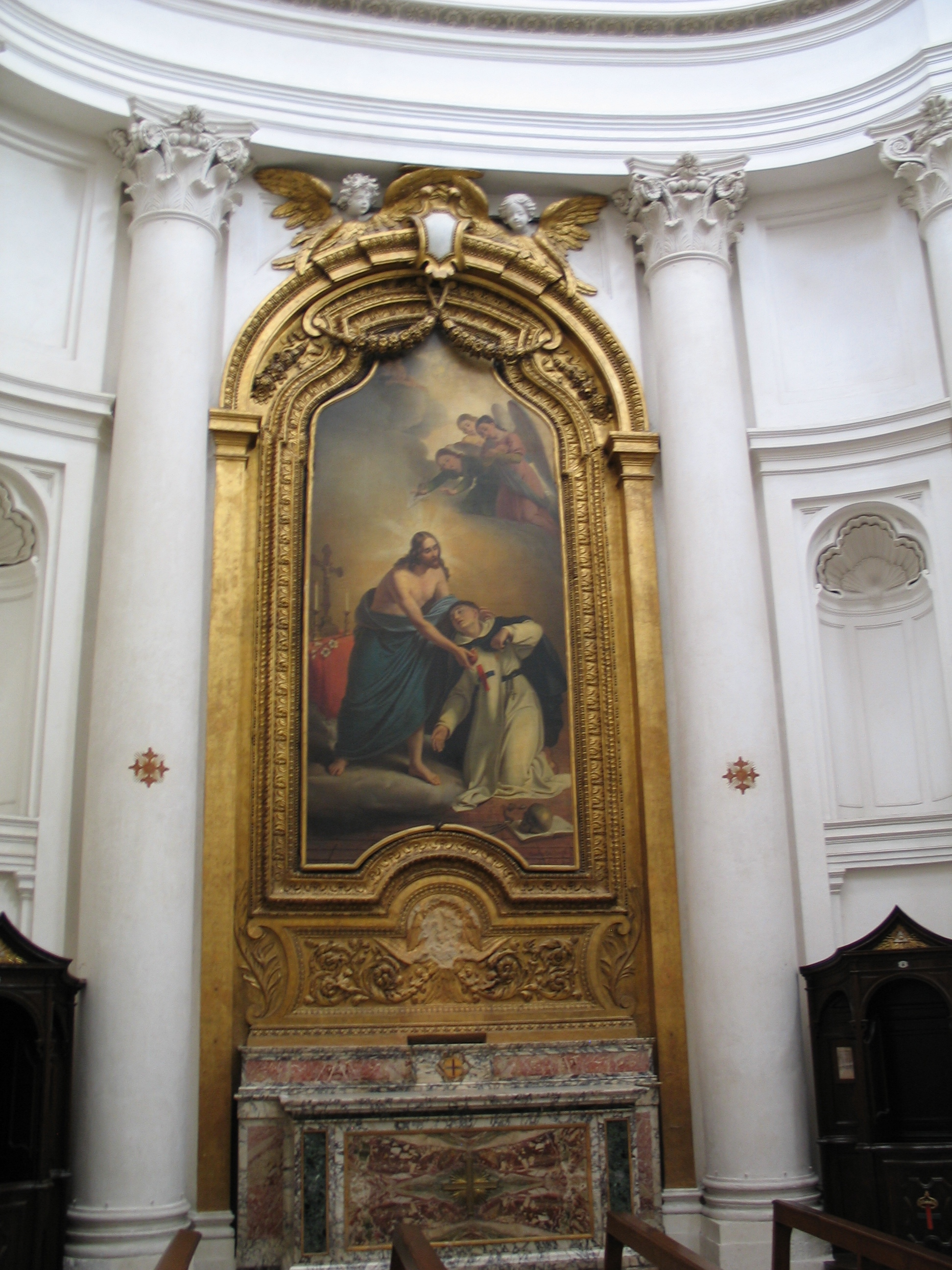 Right lateral altarpiece by Amalia de Angelis shows Saint Migeul de los Santos in ecstacy as Christ the Saviour exchanges His Heart.